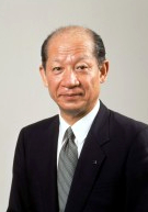 Taizō Nishimuro was inaugurated as Chairman of the Council for Decentralization Reform, Cabinet Office on July, 2001. Nishimuro was the Chairman of Toshiba Corporation on June, 2003.